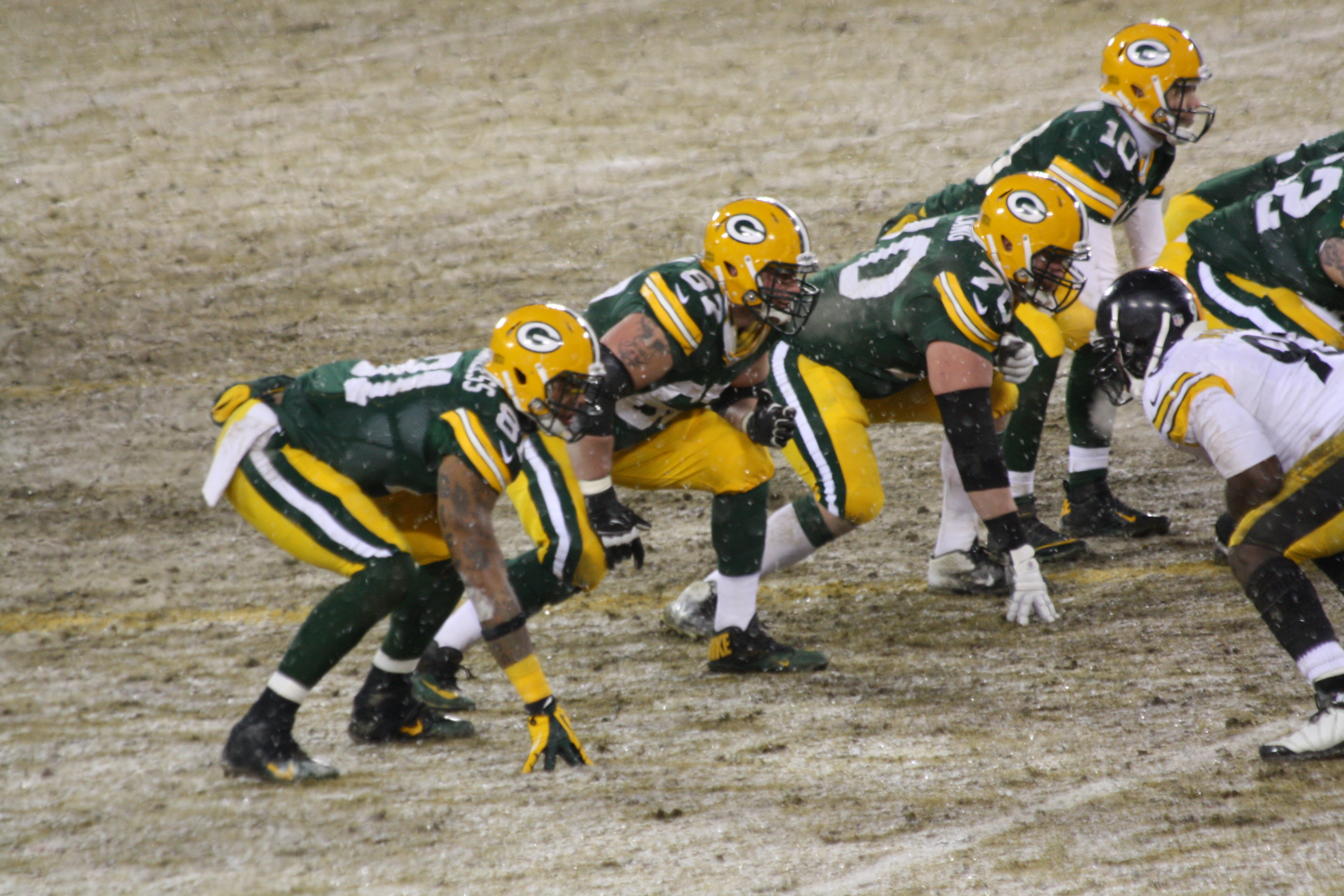 The right side of the Green Bay Packers offensive line with quarterback Matt Flynn (second from right) against the Pittsburgh Steelers. the players (left to right): #81 is Andrew Quarless, #67 Don Barclay, #70 T. J. Lang, #10 Matt Flynn (most upgright), and #62 is Evan Dietrich-Smith.